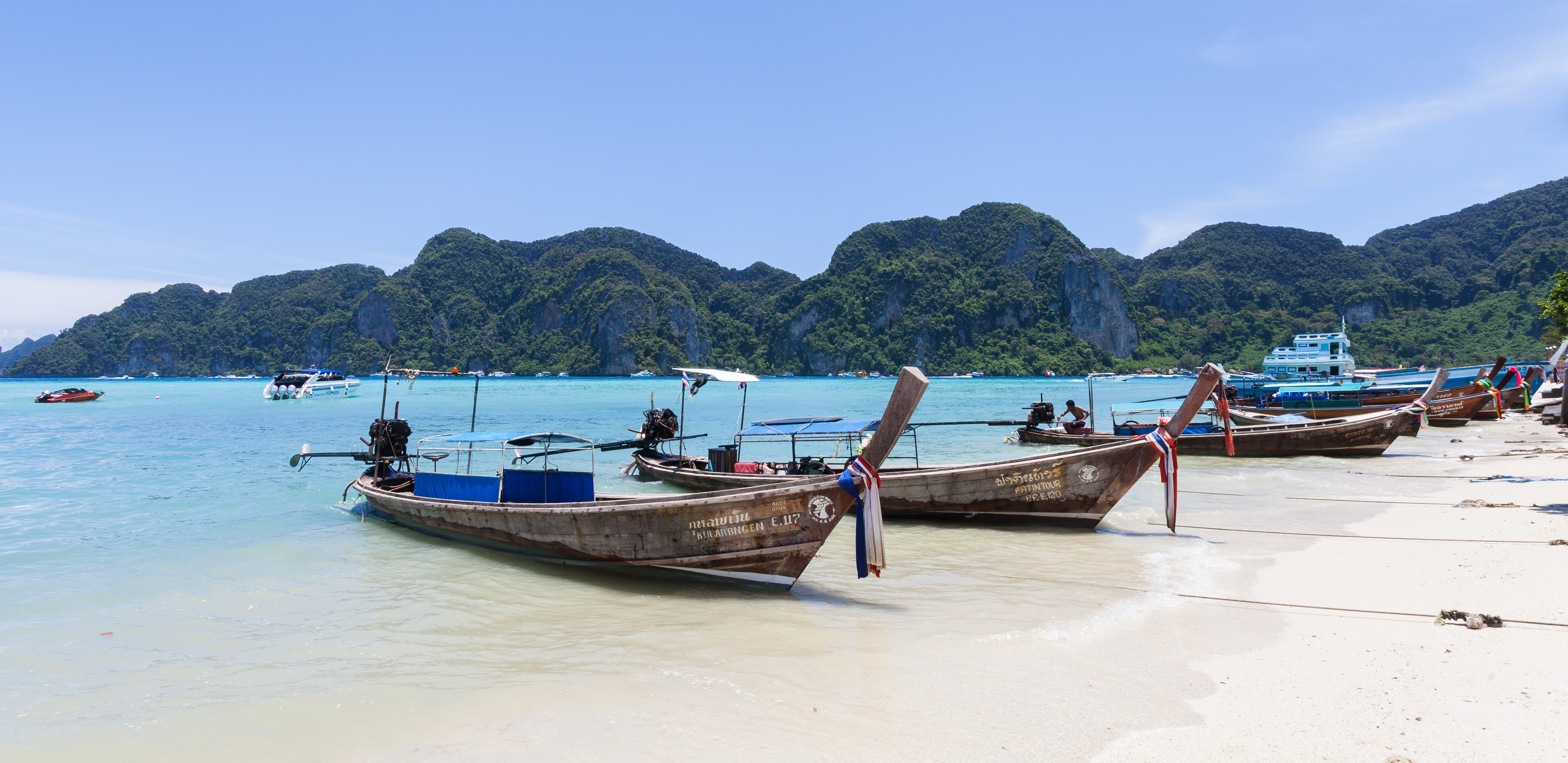 Ko Phi Phi Don Island, Thailand